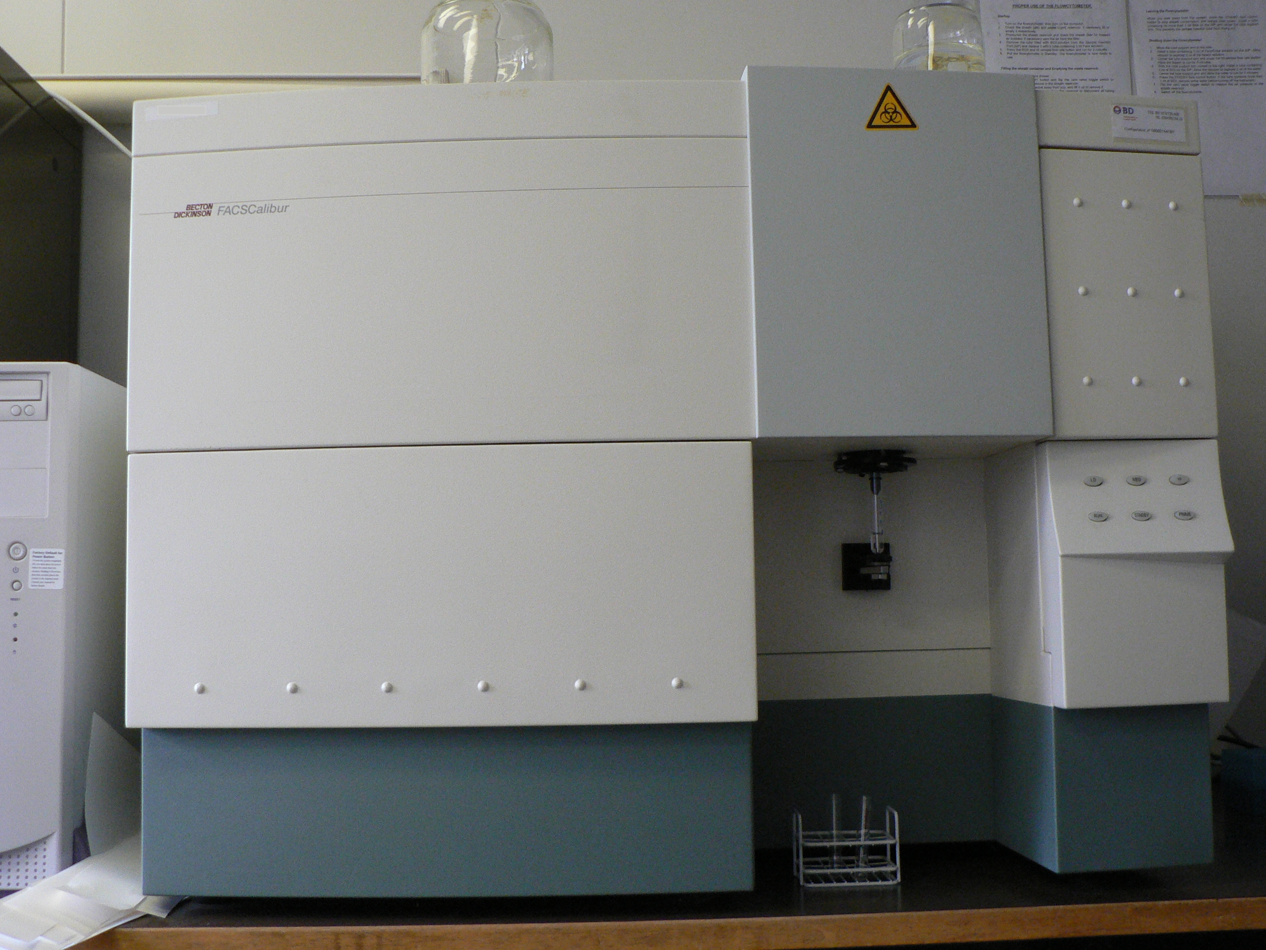 flow cytometer - front sight